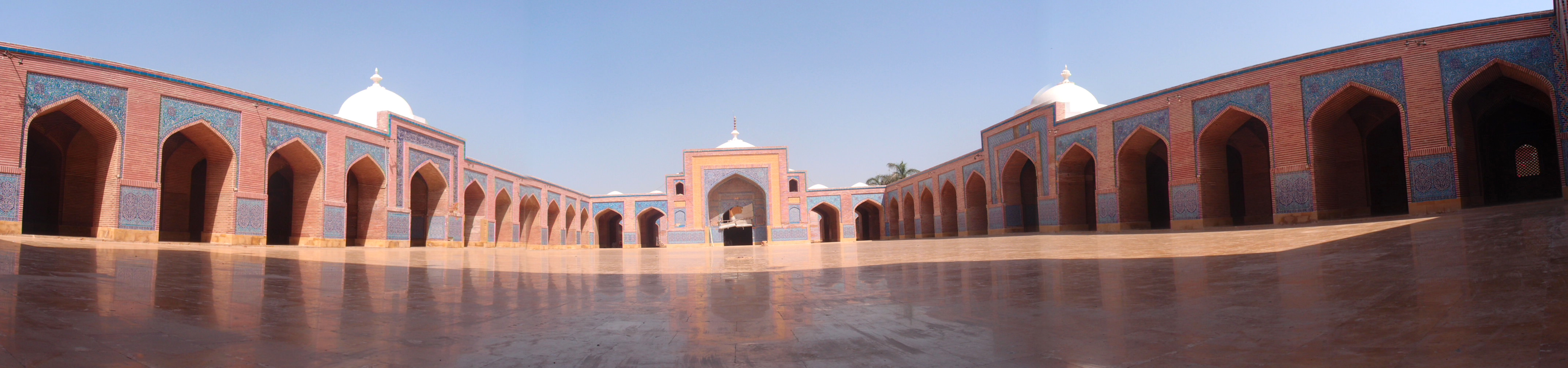 Shah Jahan Mosque